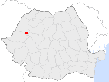 Location of Ștei in Romania.